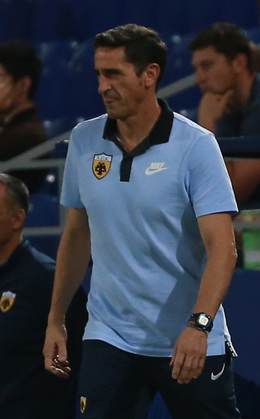 Manolo Jiménez coaching AEK against CSKA Moscow (2017-08-02)